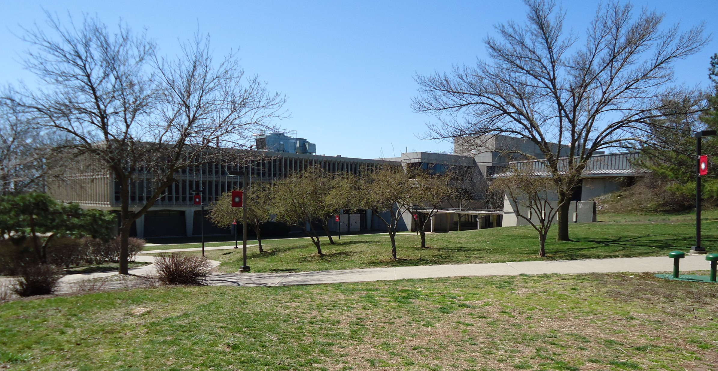 Serin Physics Building at the Busch campus of Rutgers University.